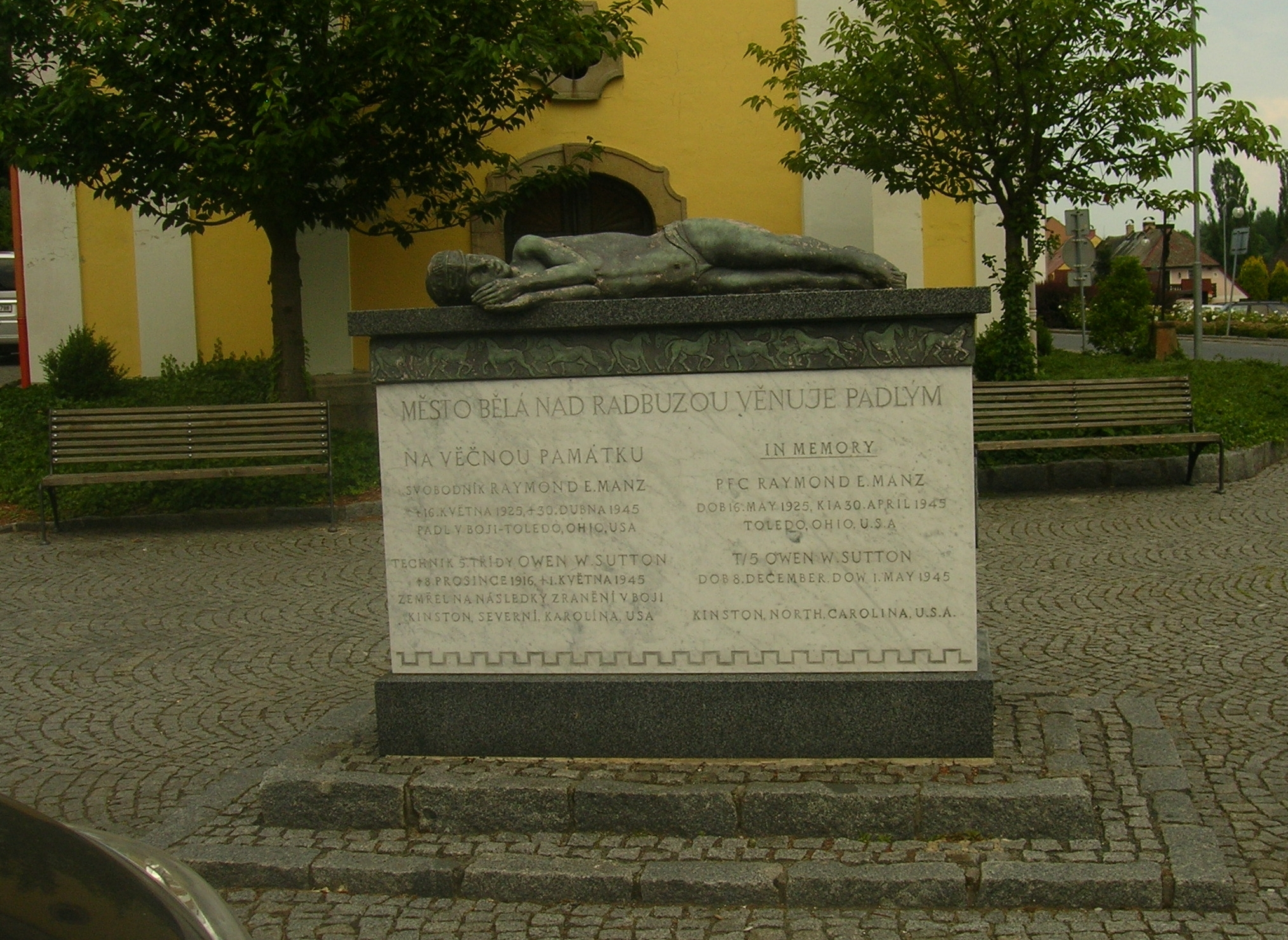 War Memorial [WW II] for T/5 Owen W. Sutton and PFC Raymond E. Manz at town Square of Belà nad Radbuzou.